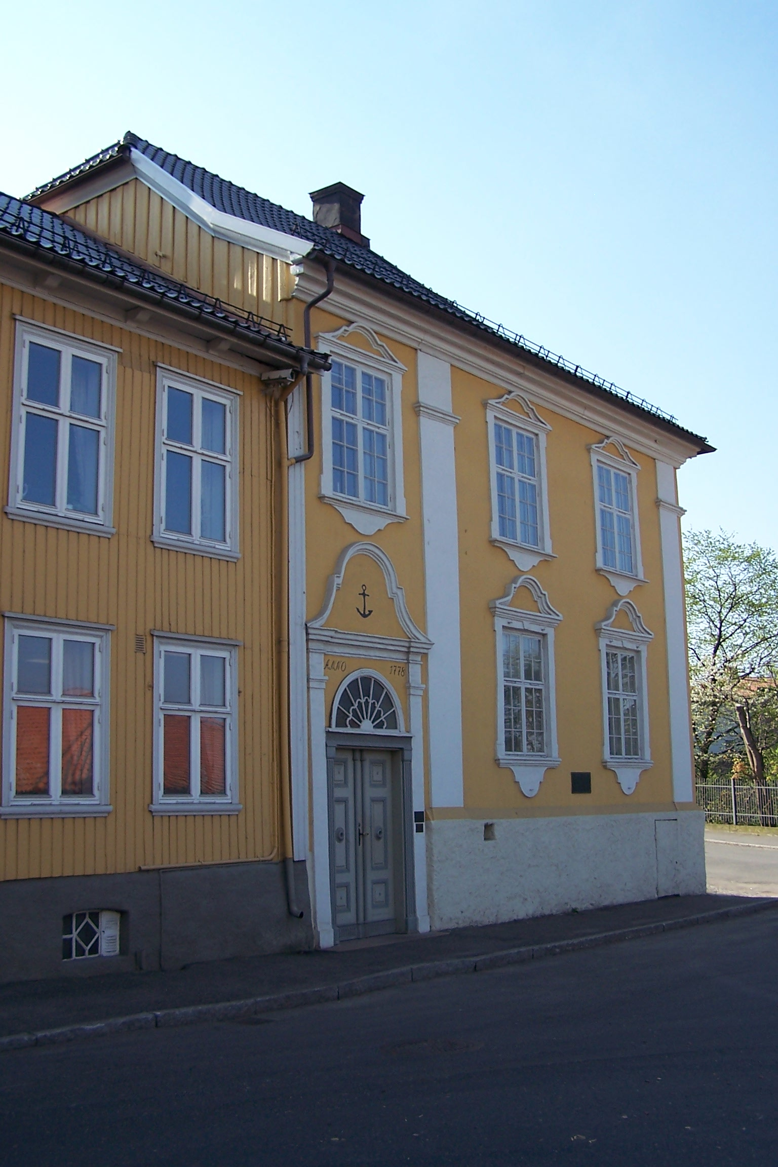 Main office of Moss Ironworks, where the "Convention of Moss" was signed 1814